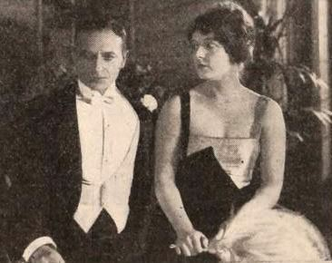 Still from the American drama film Shams of Society (1921) with Barbara Castleton, on page 56 of the September 17, 1921 Exhibitors Herald.